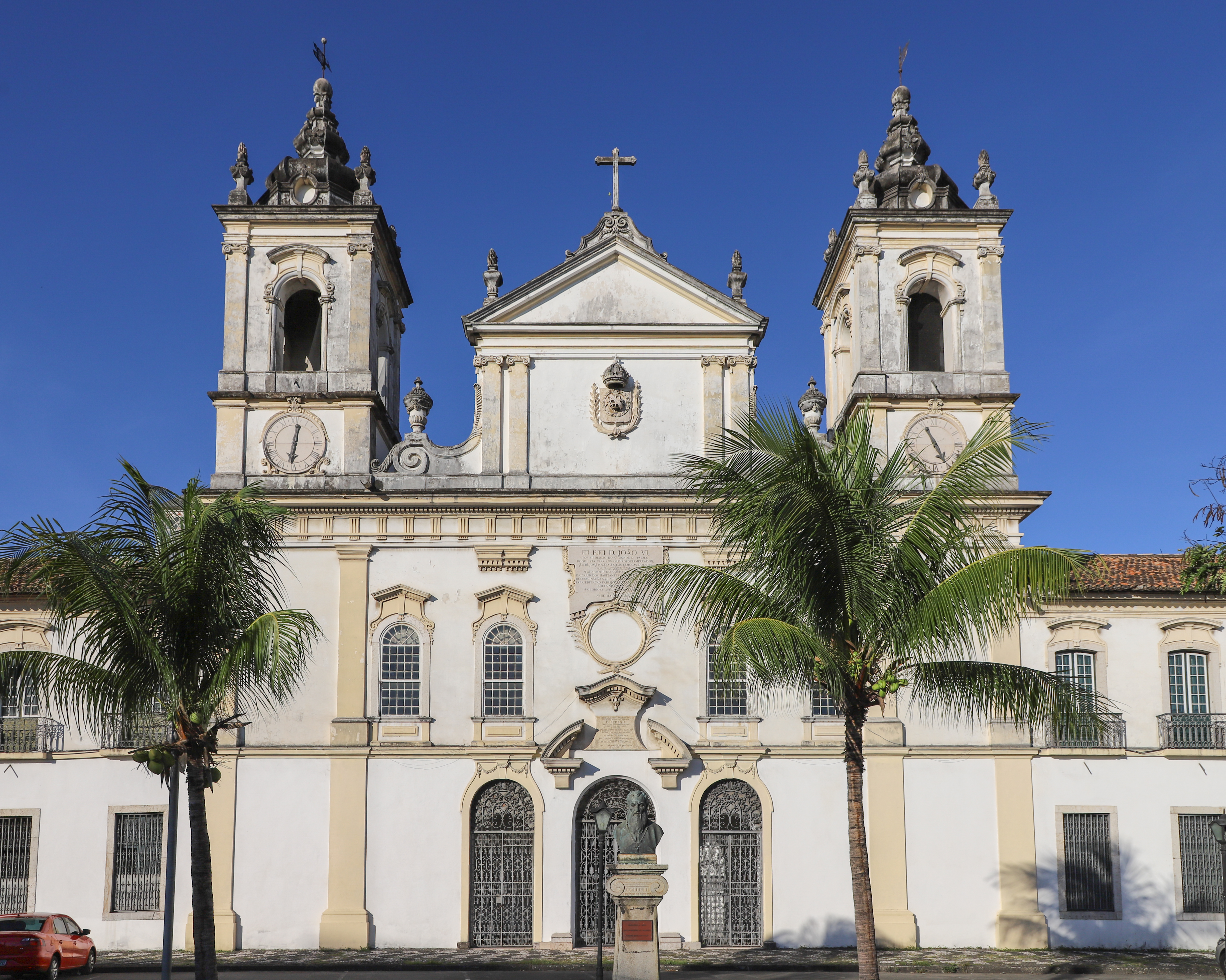 Igreja de São Joaquim, Casa Pia e Colégio dos Órfãos de São Joaquim, Salvador, Bahia, Brazil.